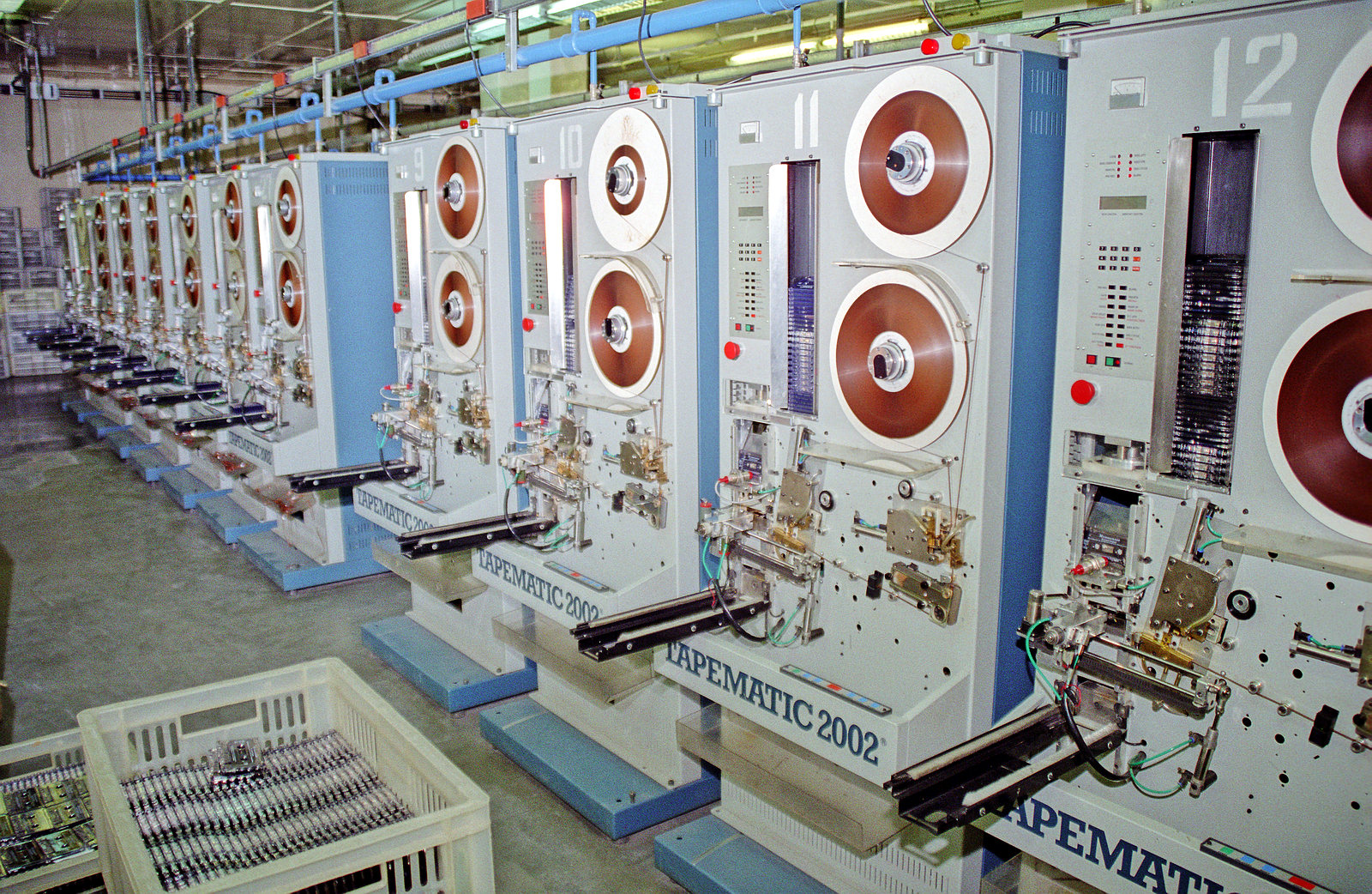 Dual pancake audio cassette loader Tapematic 2002.